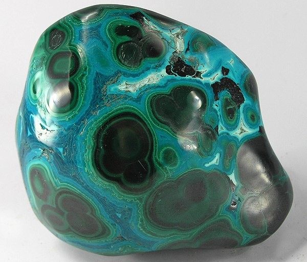 Malachite, Chrysocolla Locality: Lubumbashi (Elizabethville), Southern area, Katanga Copper Crescent, Katanga (Shaba), Democratic Republic of Congo (Zaïre) (Locality at ) Size: 8.7 x 7.9 x 5.7 cm. This is a heavy specimen of SOLID chrysocolla and malachite, in a gorgeous balance, with beautiful banded bul’l-seyes. Malachite comes out of this area in high quantities, but when it is intermixed with chrysocolla, it is really sought-after for the obvious reason of its great beauty. It is REALLY hard to find ones like this where the two colors are in such a great balance and you get the beautiful malachite patterns in a "sea" of deep turquoise blue. These tend to get grabbed very quickly. This large piece is polished all over to bring out the beauty.